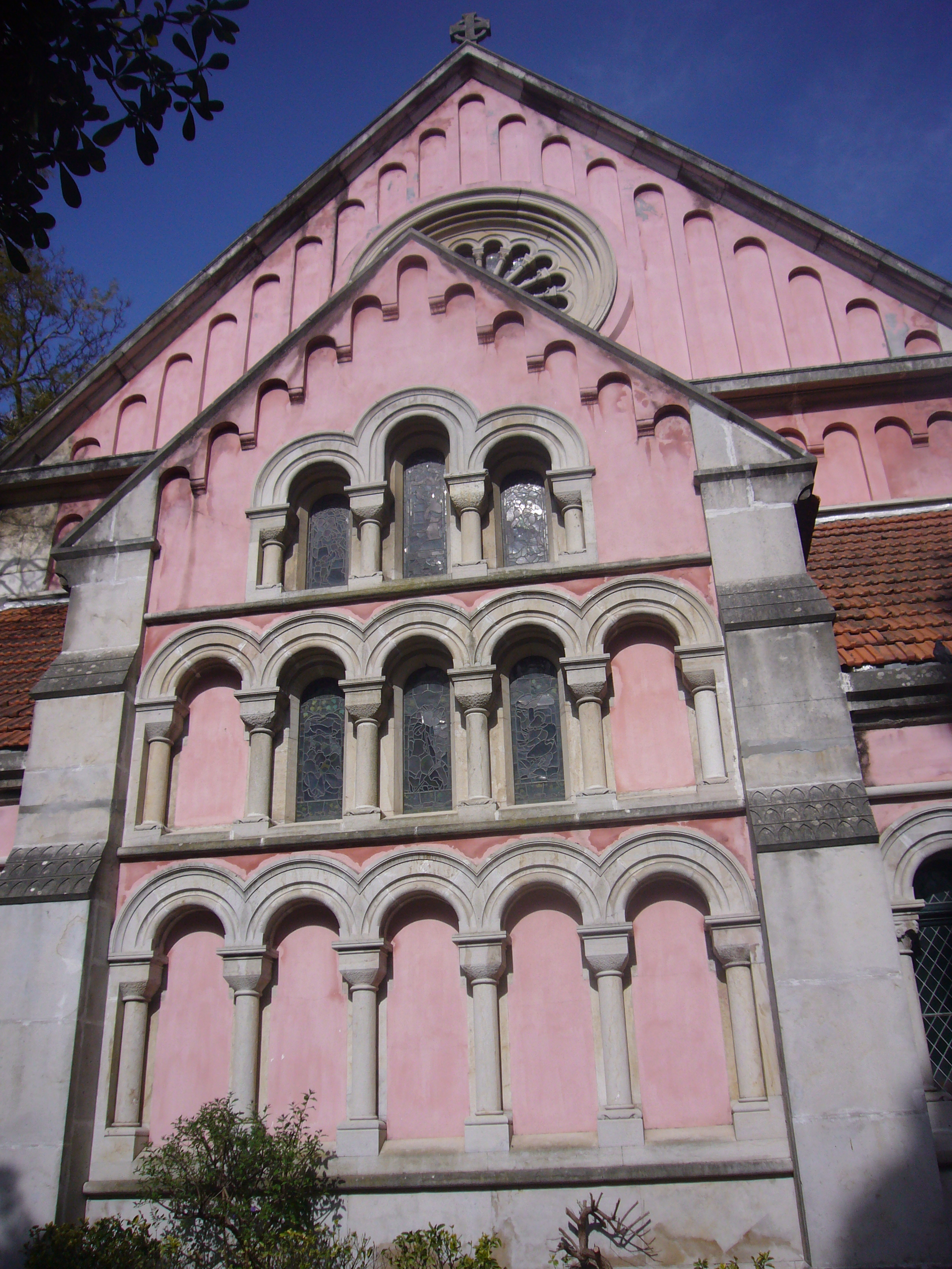 West front of St George's Church of England church in Lisbon, Portugal